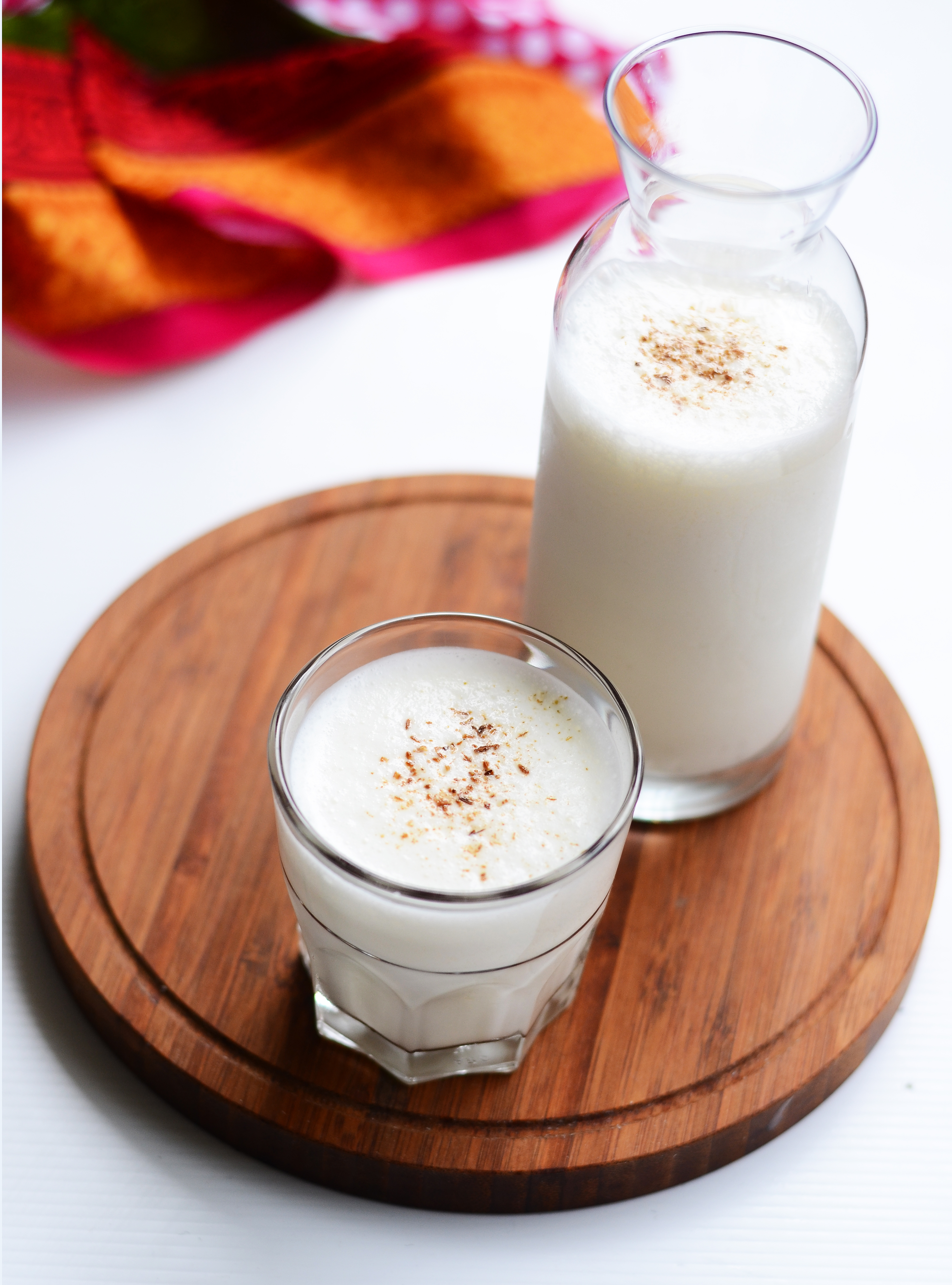 A summer drink prepared in India